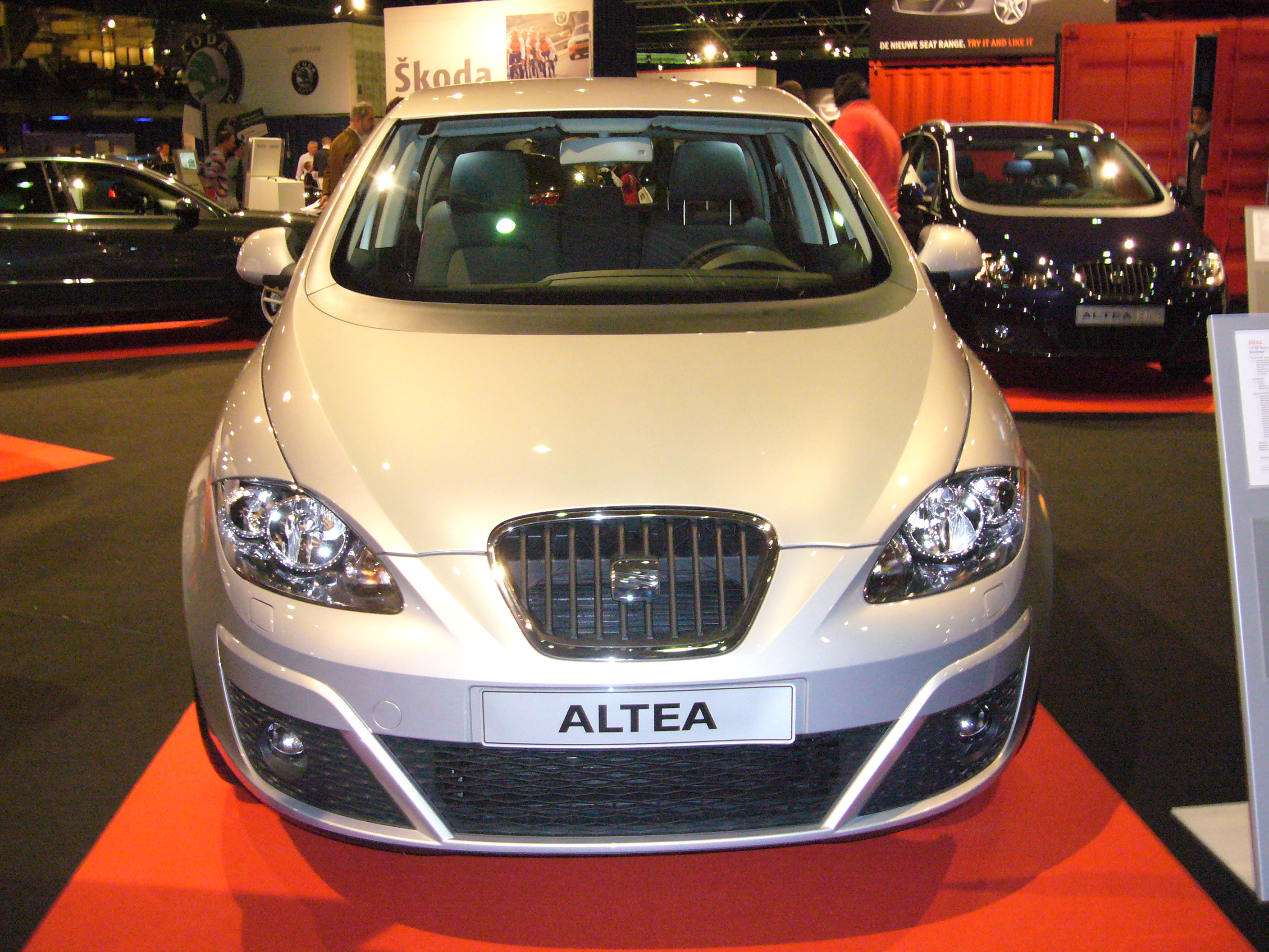 Seat Altea facelift at AutoRAI Amsterdam 2009